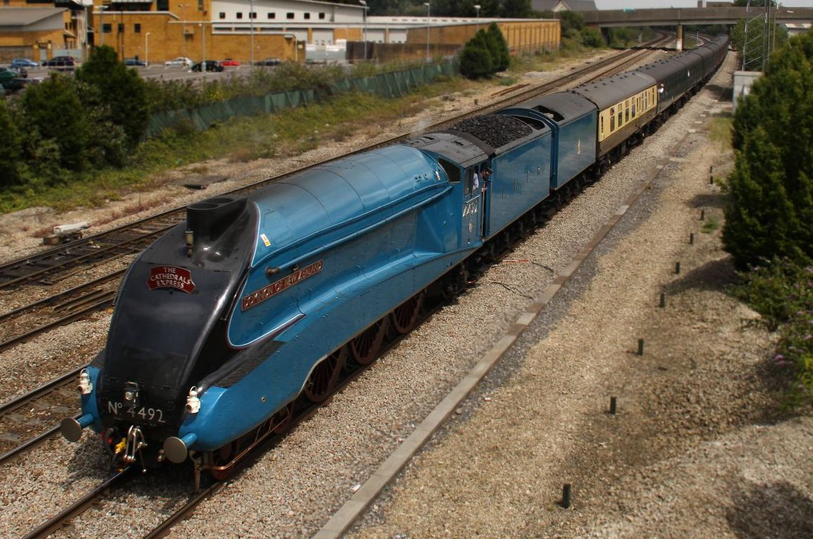 In disguise as 4492 Dominion of New Zealand, 60019 Bittern arrives at Cardiff